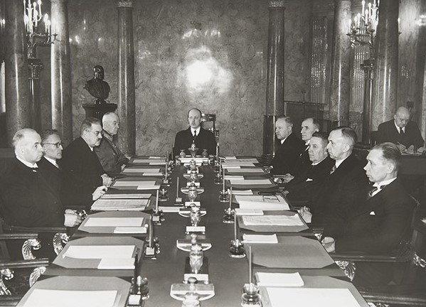 Cabinet of Finland 1941. The President of Finland Risto Ryti holding the meeting. From left: Toivo Horelli, Vilho Annala, Rolf Witting, Rudolf Walden, Risto Ryti, Väinö Tanner, Antti Kukkonen, Väinö Salovaara, Oskari Lehtonen and Toivo Ikonen. The Chancellor of Justice Oiva Huttunen on the right.